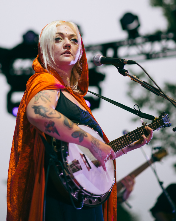 Elle King performs at the Interstellar Rodeo in Edmonton in 2015.